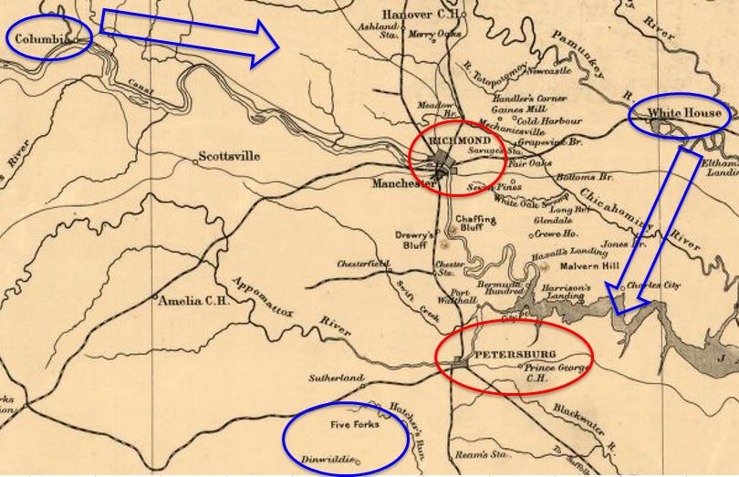 The map shows the March 1865 general movement of two divisions led by Union General Philip H. Sheridan during the American Civil War. This occurred near Richmond and Petersburg, Virginia, in the United States of America.